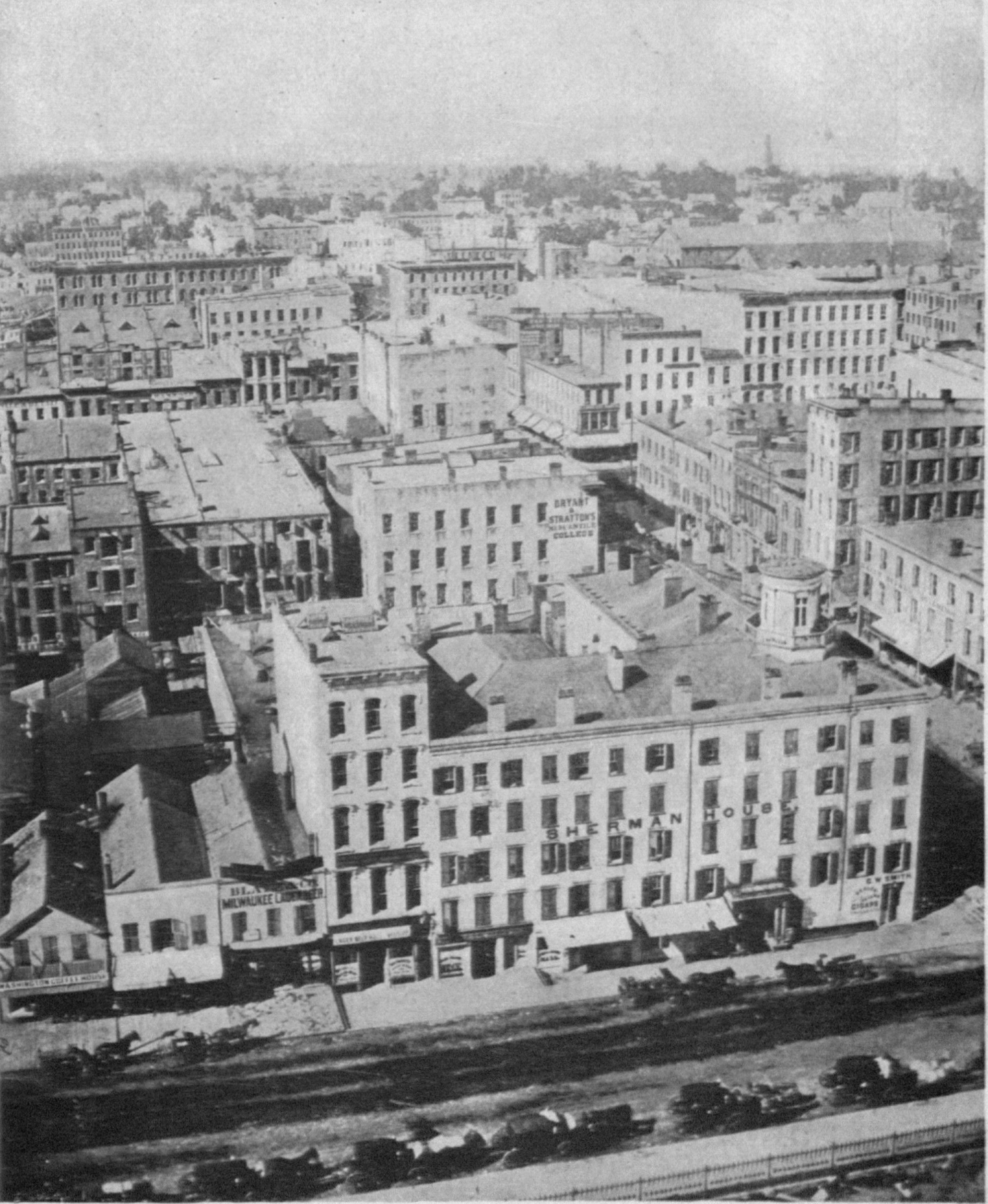 Black and white photograph of Chicago from the Court-house looking northeast. Randolph Street in the immediate foreground.